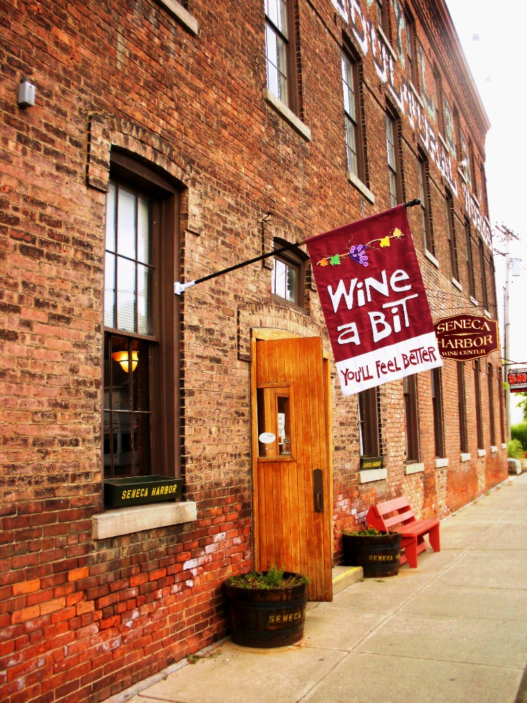 Seneca Harbor wine center.